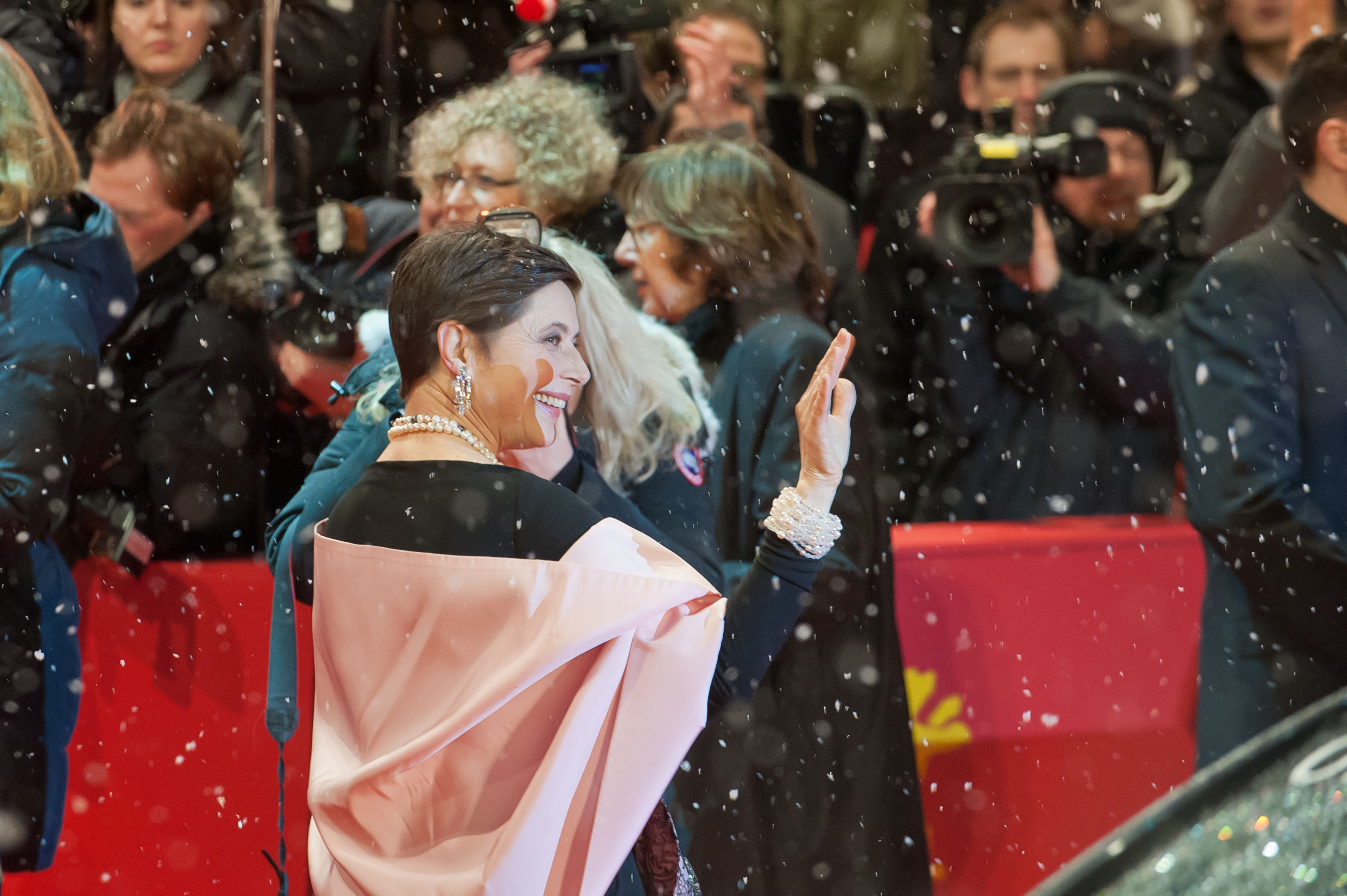 Italian Actress and Director Isabella Rossellini at the Berlin Film Festival 2013